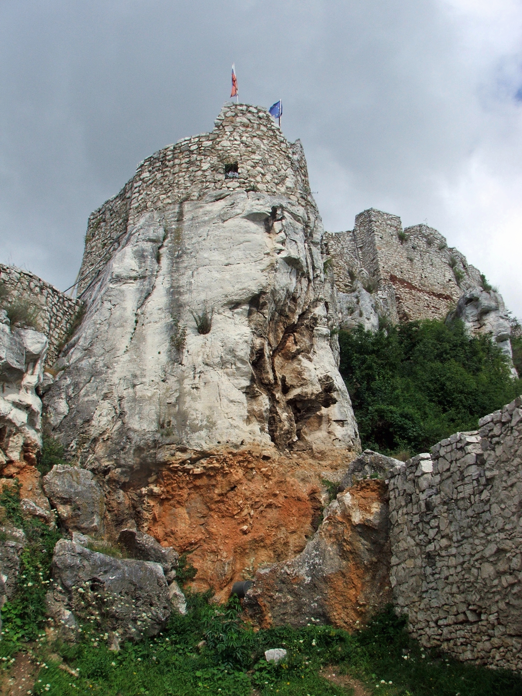 Spis Castle it was built upon the rock